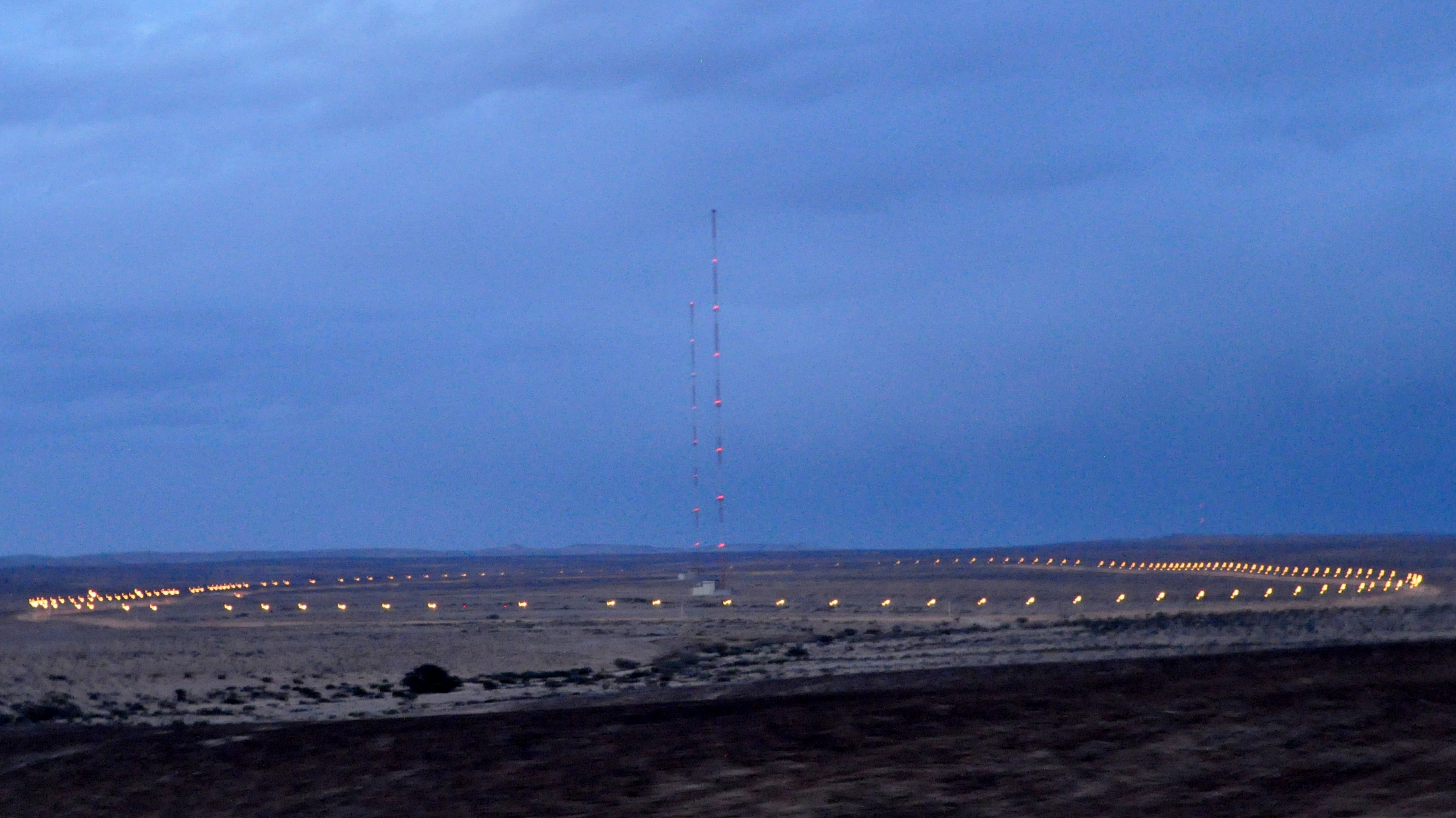 Long distance radar surveillance site in the negev desert.